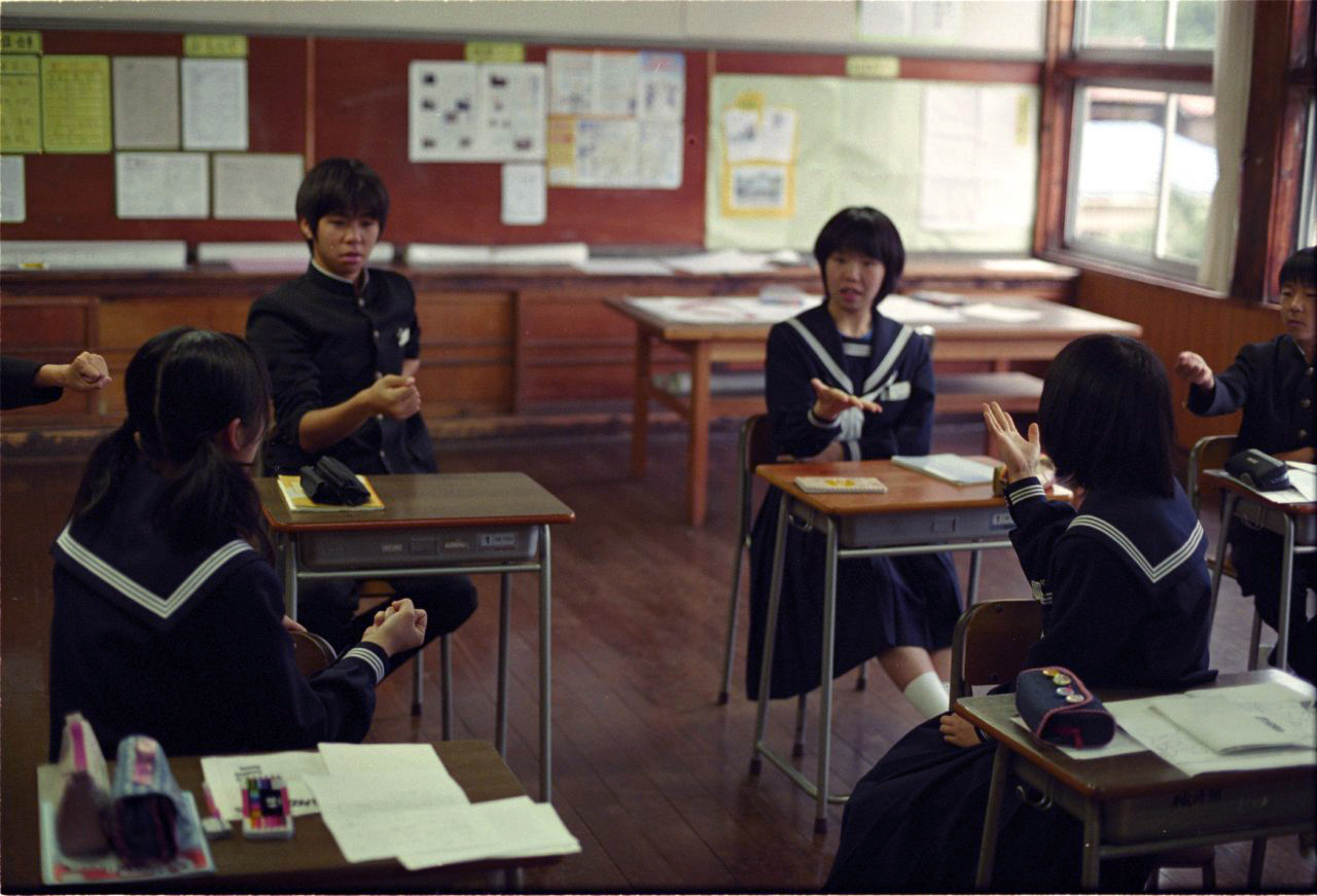 English class in Uta Junior High School. They are playing じゃんけん (janken) to decide who gets to do ... something.